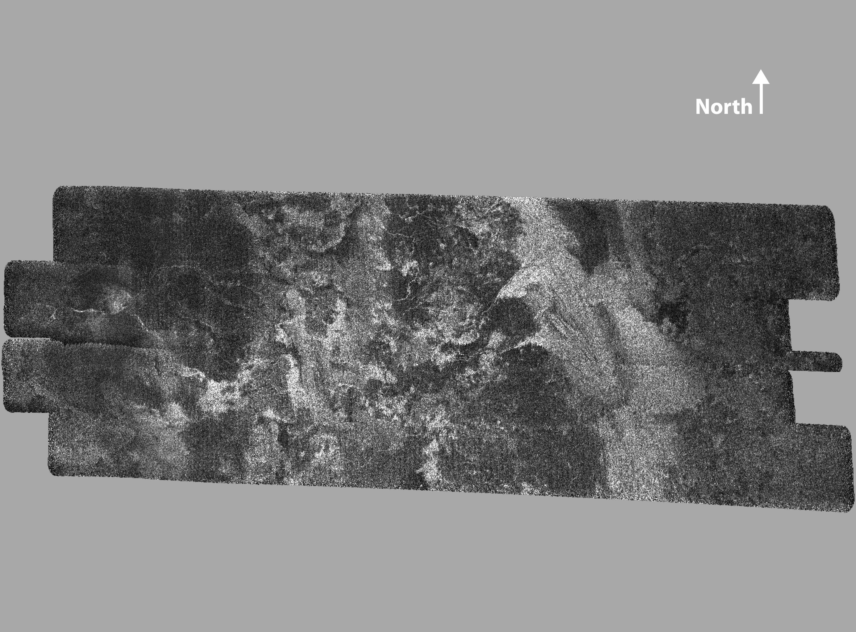 This radar image of the surface of Saturn's moon Titan was acquired on October 26, 2004, when the Cassini spacecraft flew approximately 1,200 kilometers (745 miles) above the surface and acquired radar data for the first time. It reveals a complex geologic surface thought to be composed of icy materials and hydrocarbons. A wide variety of geologic terrain types can be seen on the image; brighter areas may correspond to rougher terrains and darker areas are thought to be smoother. A large dark circular feature is seen at the western (left) end of the image, but very few features resembling fresh impact craters are seen. This suggests that the surface is relatively young. Enigmatic sinuous bright linear features are visible, mainly cutting across dark areas. The image is about 150 kilometers (93 miles) wide and 250 kilometers (155 miles) long, and is centered at 50 N, 82 W in the northern hemisphere of Titan, over a region that has not yet been imaged optically. The smallest details seen on the image are about 300 meters (984 feet) across. The data were acquired in the synthetic aperture radar mode of Cassini's radar instrument. In this mode, radio signals are bounced off the surface of Titan.